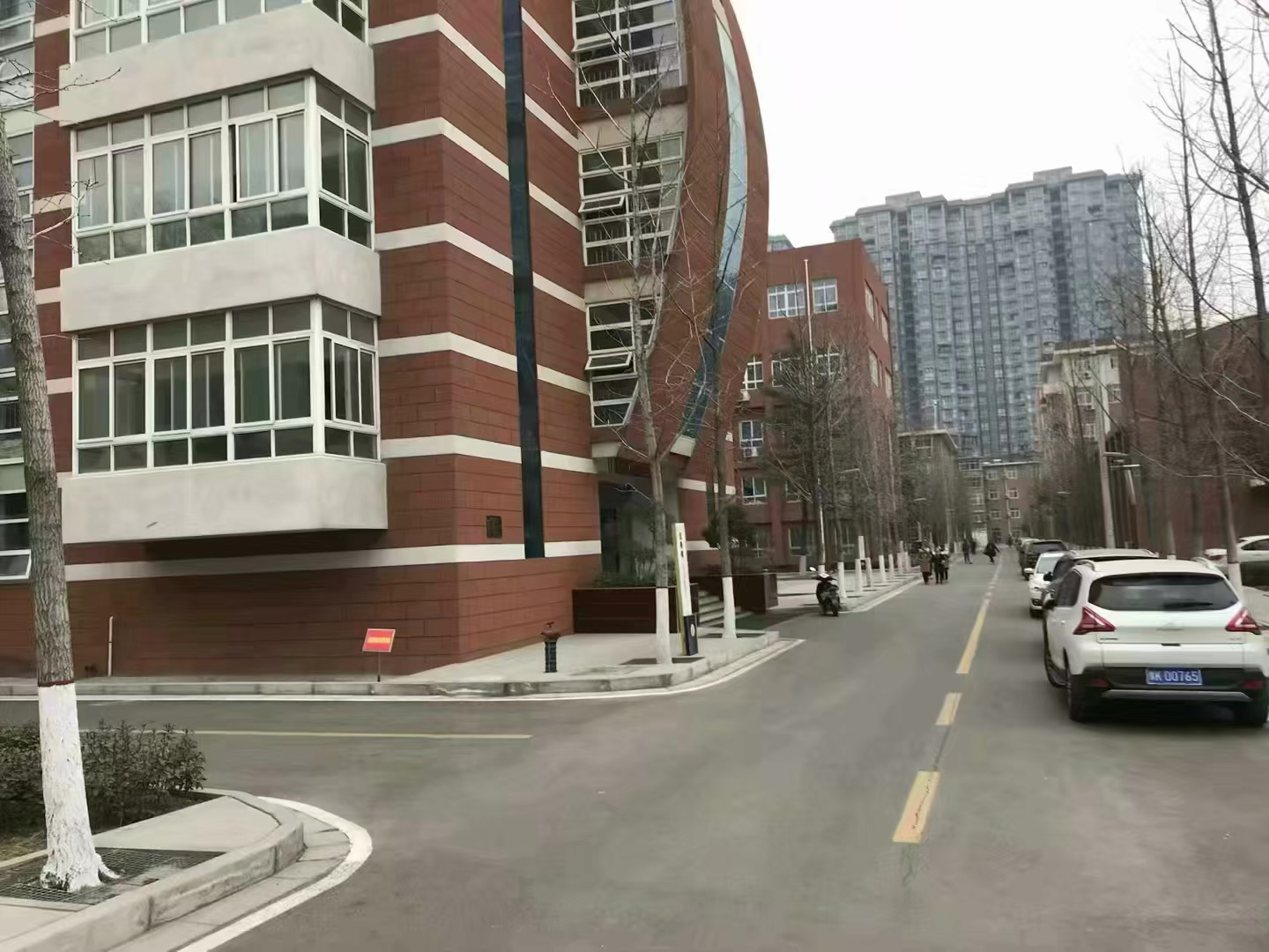 1号教学楼（北校区）